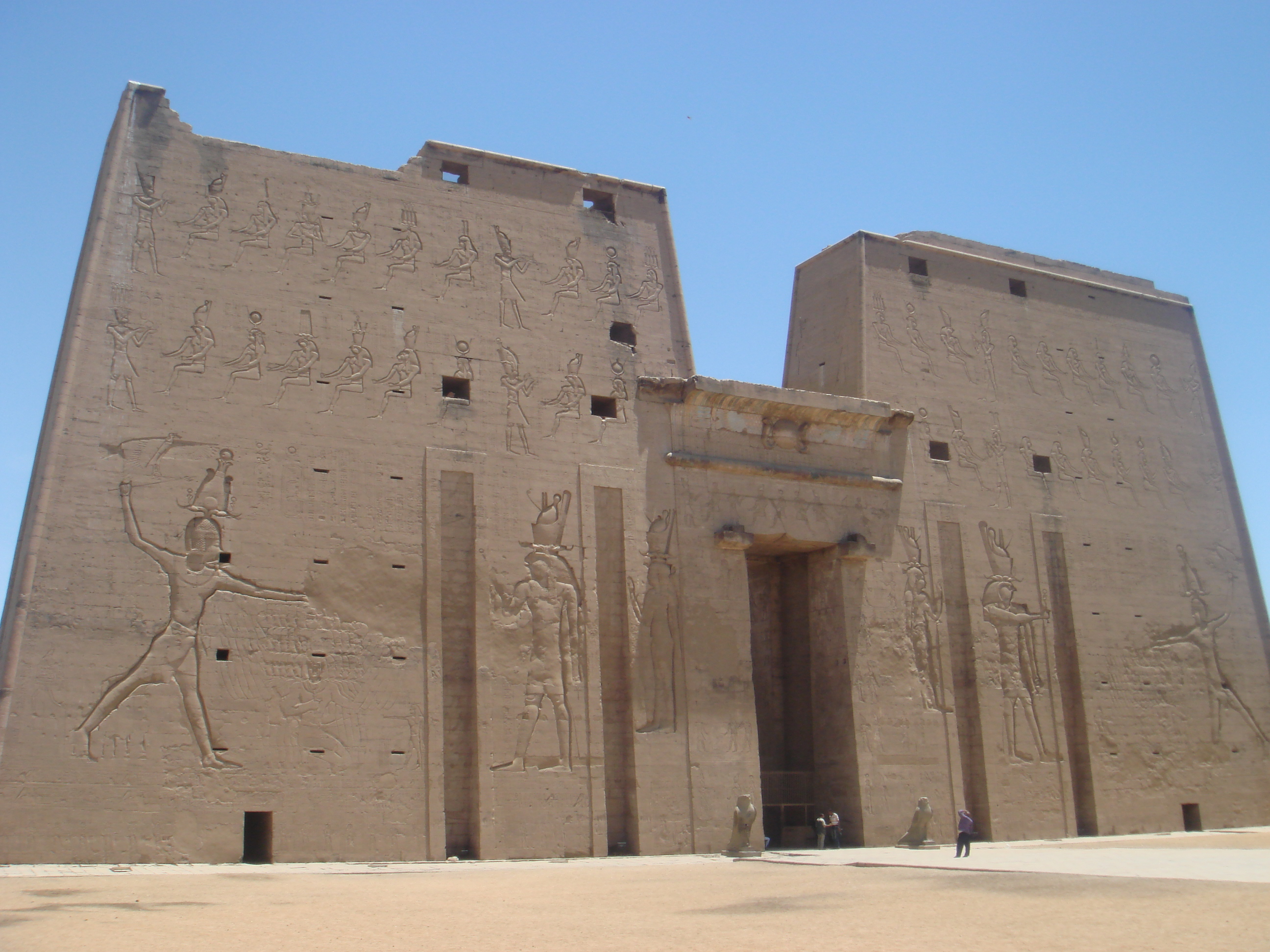 The main pylon of the Temple of Edfu in Edfu, Egypt.